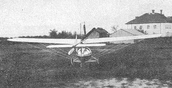 A Vlaicu III airplane - rear view